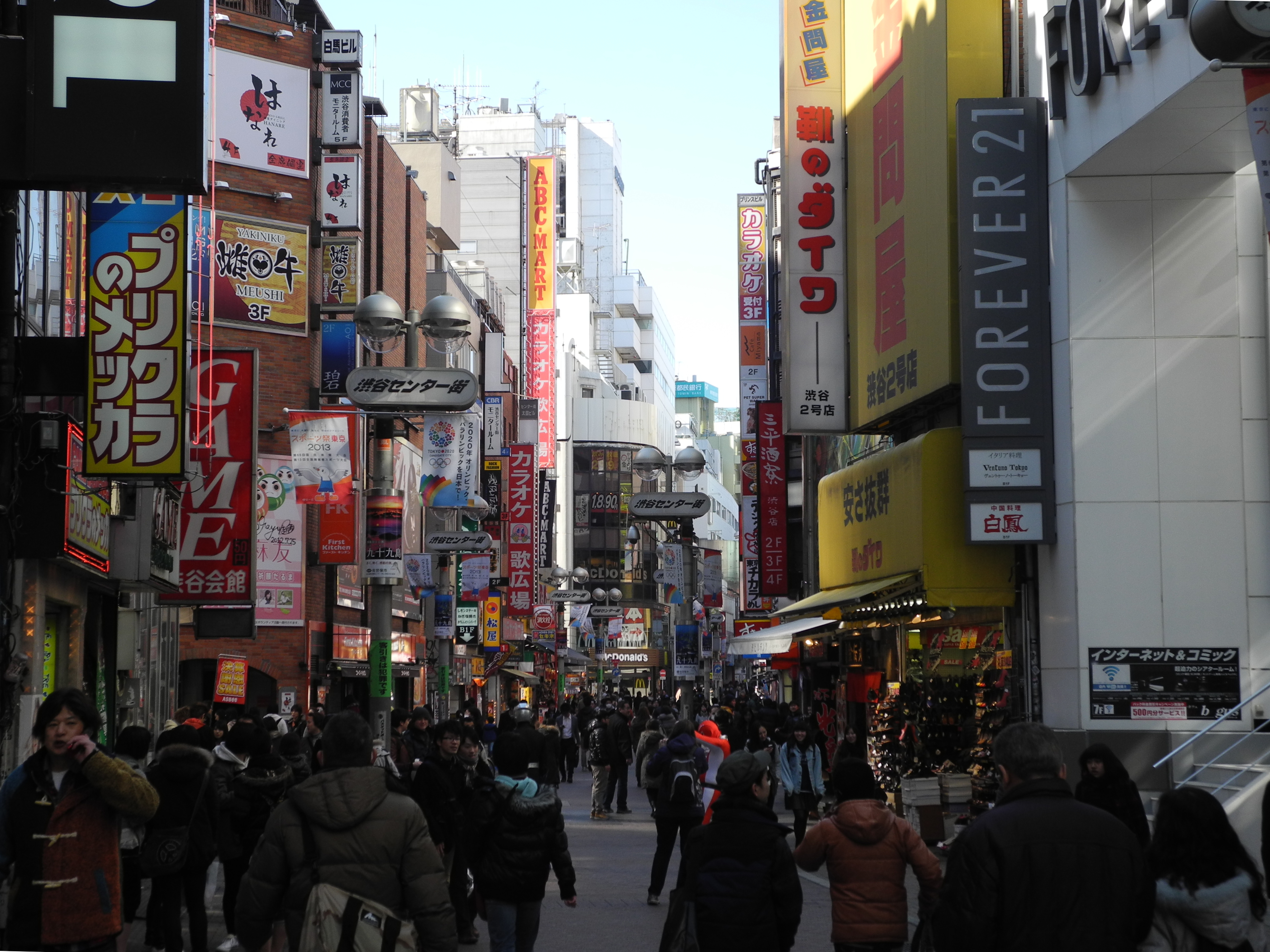 Many people walk along a crowded Shibuya street just north of Shibuya Crossing. Tokyo, Japan.